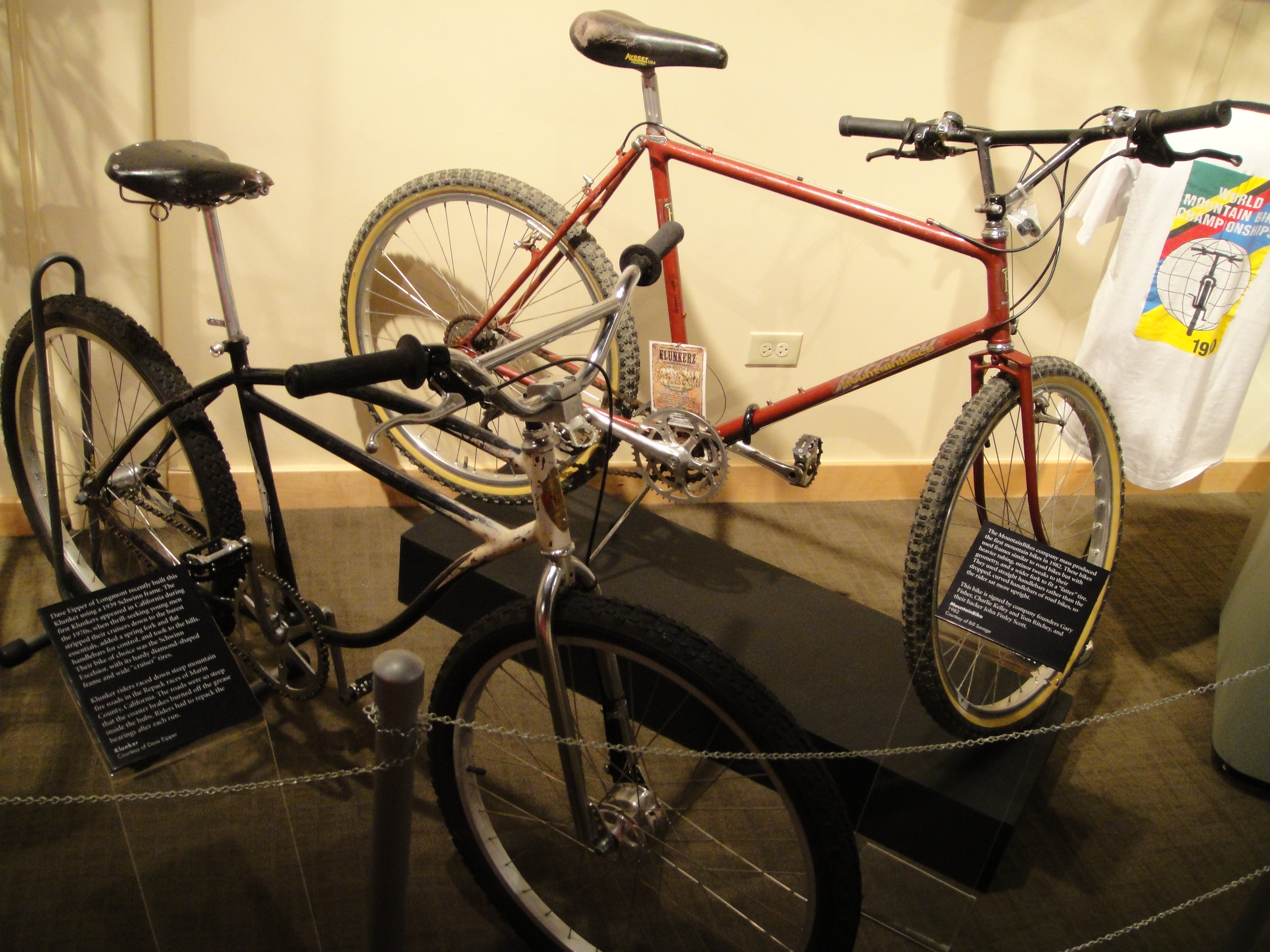 A modified cruiser bike and an old mountainbike at the "Bicycles! - 150 Years of Gears" Longmont museum in Colorado, USA.